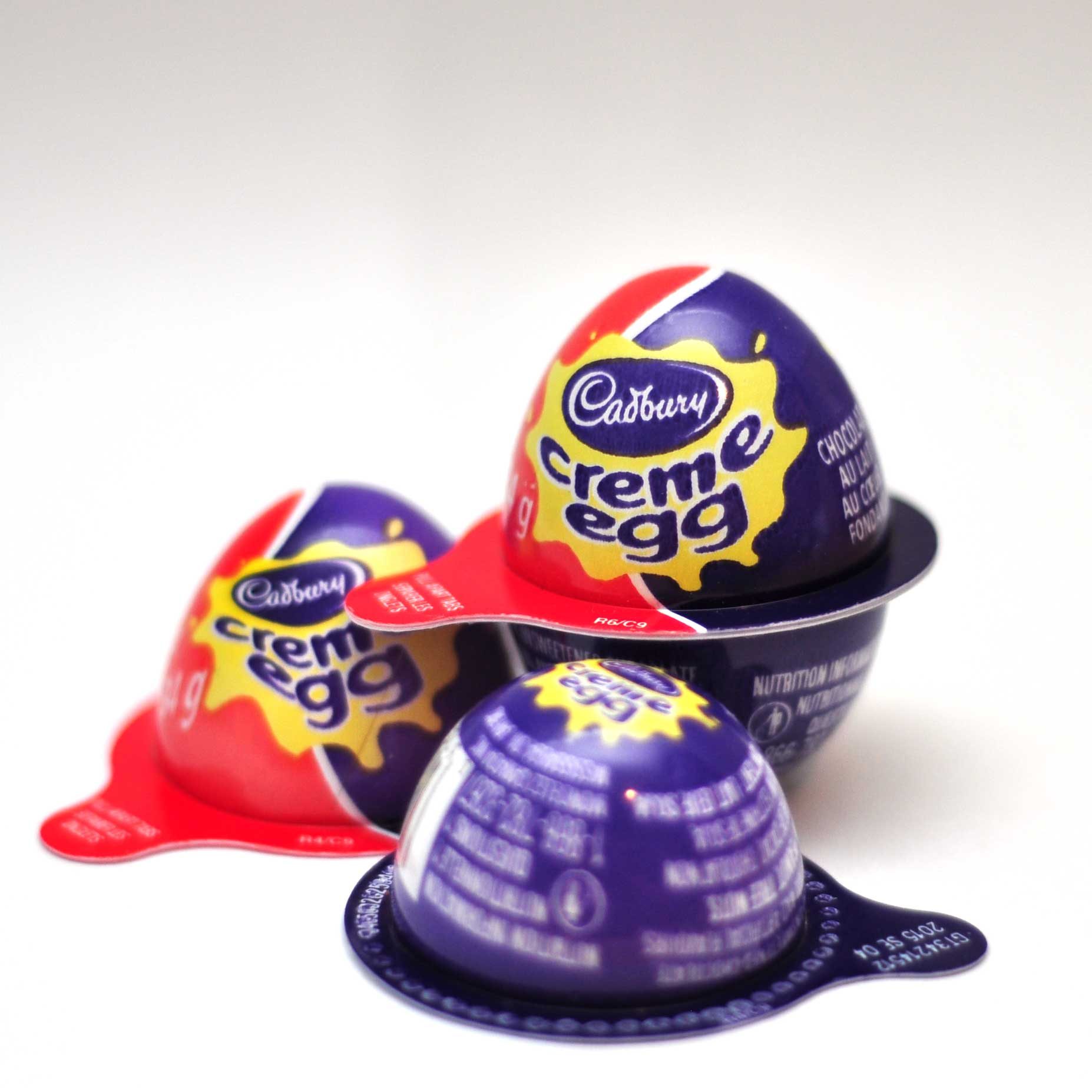 Image of the new packaging introduced in Canada (2015).